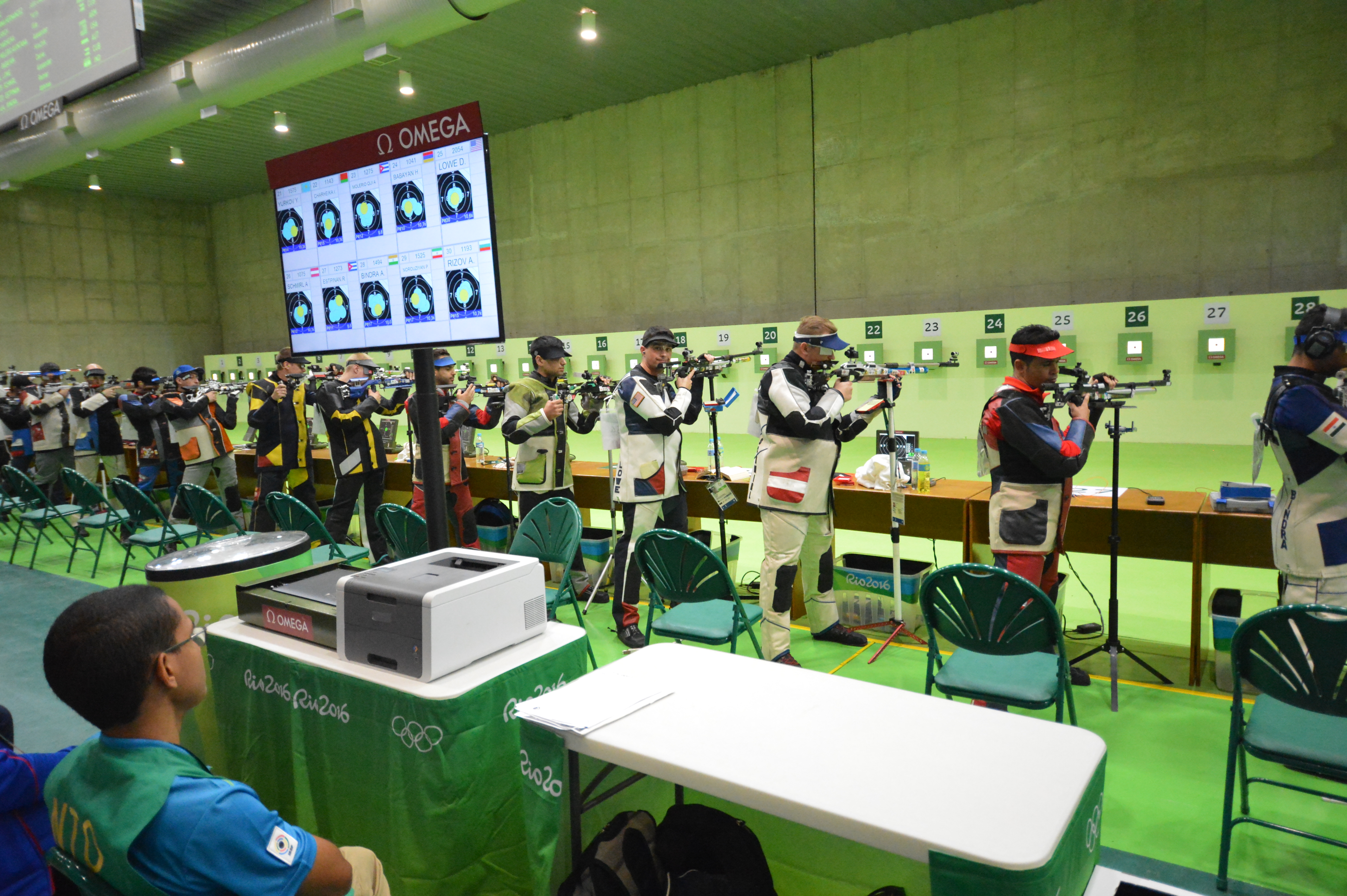 Spc. Dan Lowe Rio Olympic Games air rifle